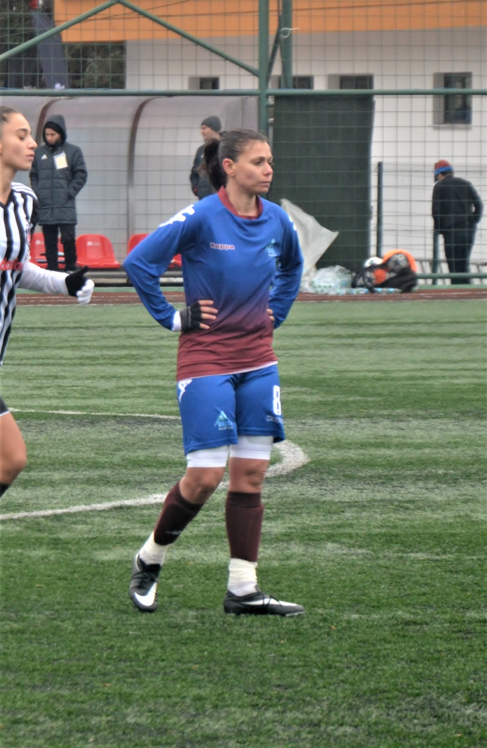 Engy Sayed playing for Trabzon İdmanocağı in the away match against Beşiktaş J.K. in the 2017-18 Turkish Women's First League.